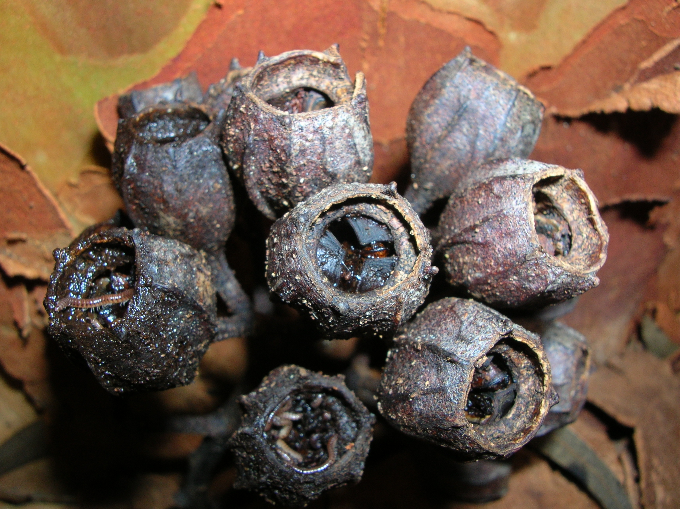 Angophora costata (capsules). Location: Maui, Makawao Forest Reserve